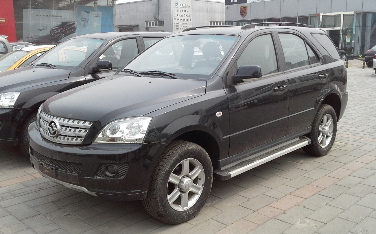 Huanghai Landscape photographed in Beijing, China.